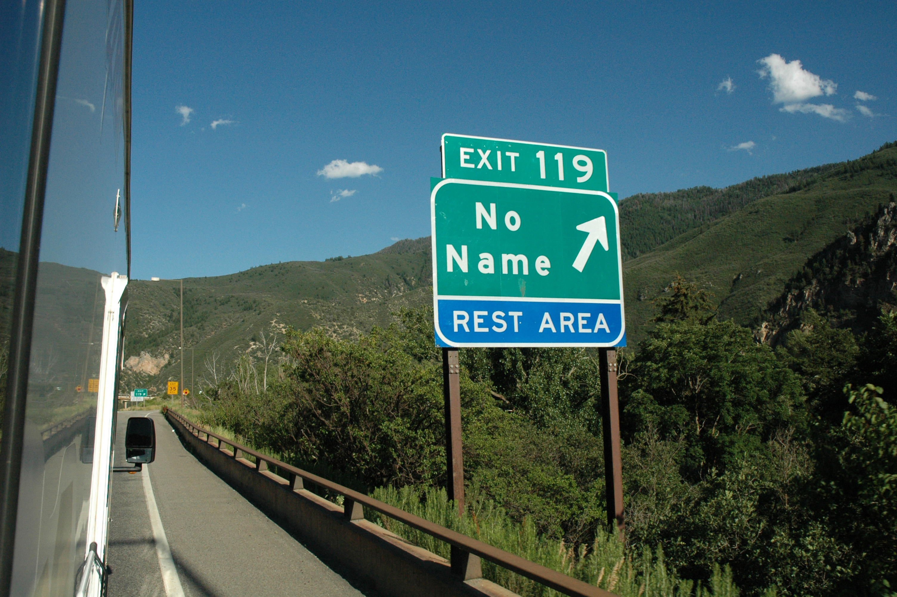 Highway exit on I-70: No Name, Colorado. Vehicle on the left is a Cruise America rental RV.